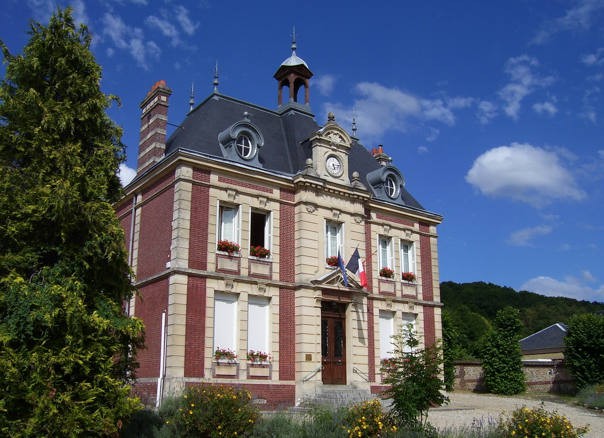 Town hall of Pont-Authou in the département Eure in Normandie in France.